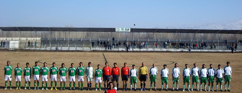 The match in Iğdır City Stadium.